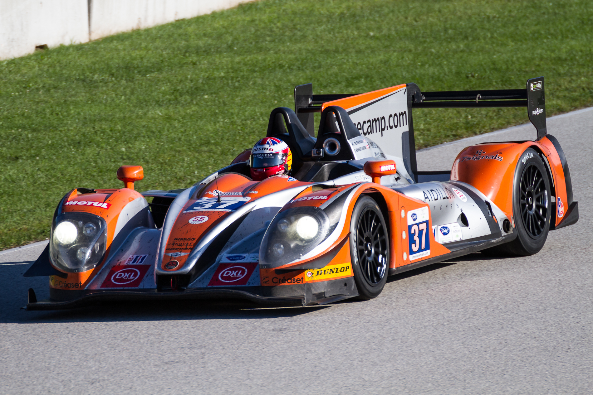 Martin Plowman in the Conquest Endurance Morgan LMP2-Nissan at the 2012 Road Race Showcase